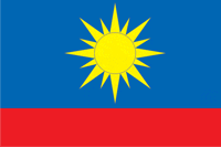 Artyom (Primorsky kray), flag